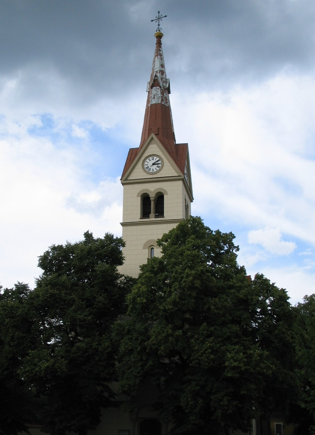 All Saints church in Lipov, Hodonín District, Czech Republic